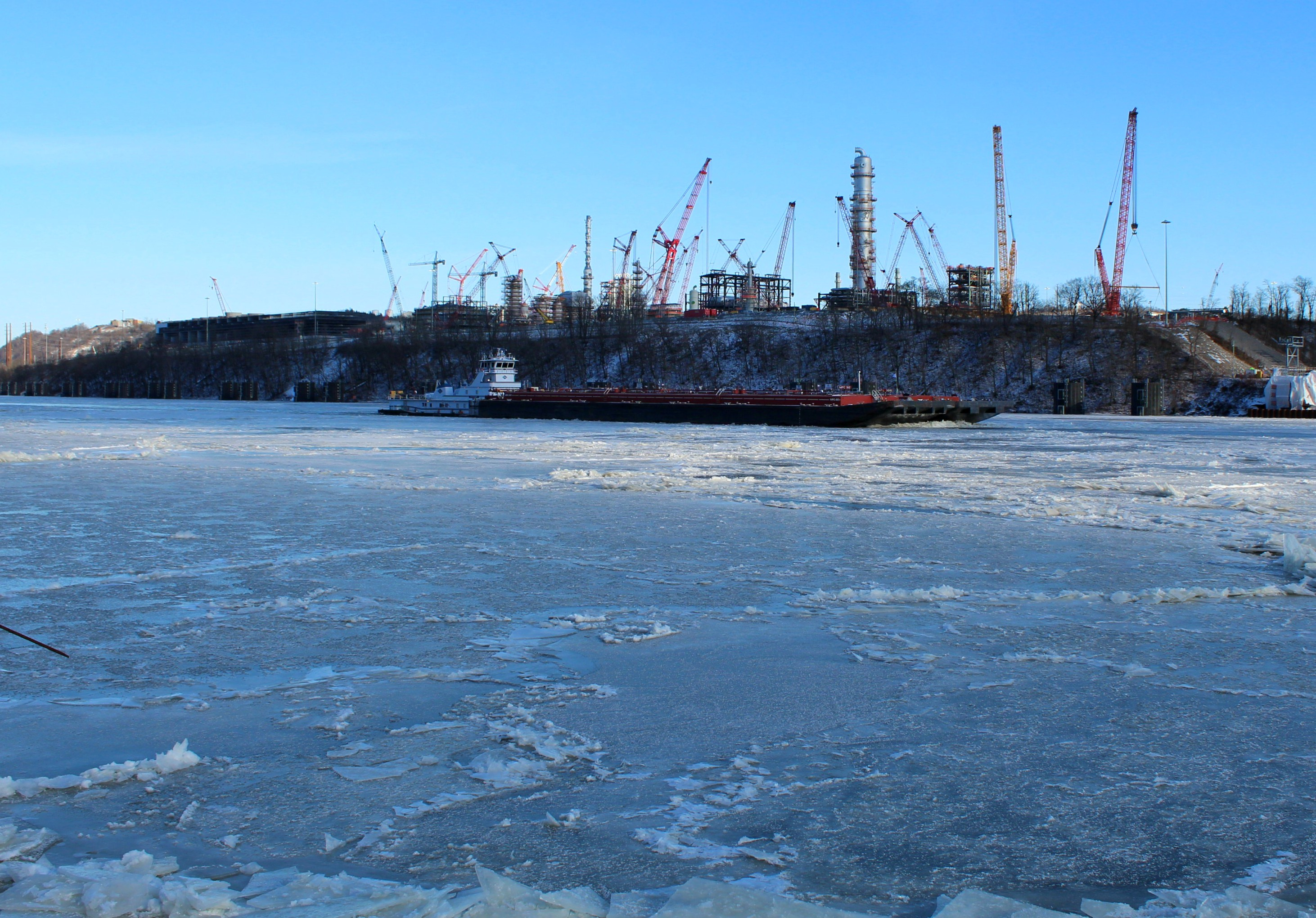 A towboat pushes a barge down the icy Ohio River below the construction of the Shell Cracker Plant in Potter Township, Beaver County, Pennsylvania.